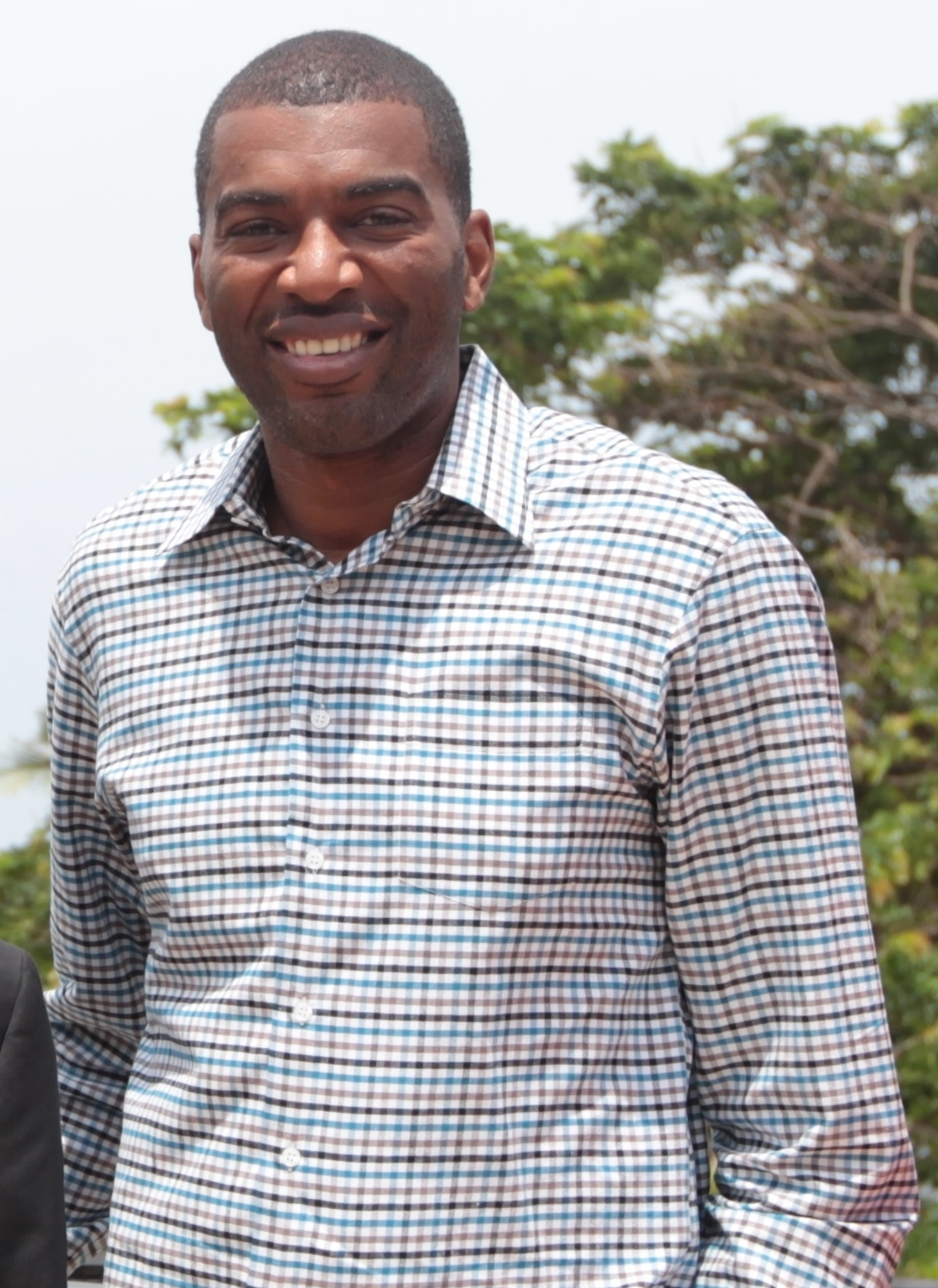 Manila, August 12, 2014 – U.S. Ambassador Philip S. Goldberg Welcomes Former NBA/WNBA Players. U.S. Ambassador Philip S. Goldberg meets with former National Basketball Association player, Derrick Alston, and former Women’s National Basketball Association player, Allison Feaster. The stars arrived in the Philippines Sunday to participate in U.S. Embassy-sponsored sports diplomacy activities, such as basketball clinics and outreach, as a part of the U.S. Department of State’s Sports United program. They later visited disaster-hit Leyte and Tacloban City, and fans in Manila.